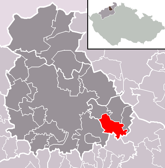 Location of Homole u Panny municipality within Ústí nad Labem District and administrative area of Ústí nad Labem as a Municipality with Extended Competence.